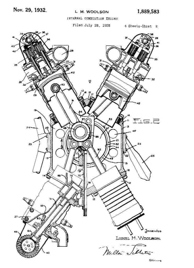 Packard 1A-2775 engine cross section